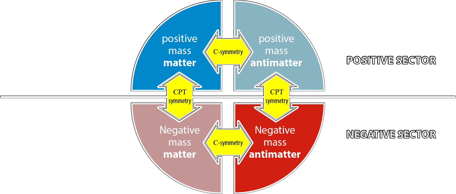 As T-symmetry produces energy and mass inversion (when the T operator is chosen linear and unitary as in the Janus model), it refers to the negative sector. There are then four species: • Positive mass matter: our common matter, what we are made of. Prevailed in our sector. • Positive mass antimatter: C-symmetry with respect to our matter. It may be called "Dirac's antimatter". It is the antimatter created in lab. It has positive energy and mass, and falls down in the Earth gravitational field. • Negative mass matter: CPT-symmetry with respect to our matter. The "twin matter", "shadow matter" or "matter of the negative sector". • Negative mass antimatter: C×CPT = PT-symmetry with respect to our matter. It may be called "Feynman's antimatter". It is the "missing" cosmological antimatter, the species that prevailed in the negative sector due to an opposite CP violation with respect to the positive sector, according to the Sakharov conditions. Since it has negative energy and mass, it "falls up" in the Earth gravitational field.